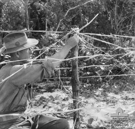 Goodenough Island, New Guinea. October 1942 Imitation barbed wire entanglements made from jungle creepers. the island was seized by a small force of Australians and by bluff and deception they led the Japanese to believe that at least one brigade occupied the island.